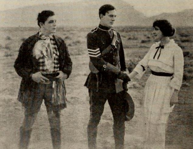 Still from the American drama film Heart of the Wilds (1918) with Matt Moore, Thomas Meighan, and Elsie Ferguson, on page 50 of the September 7, 1918 Exhibitors Herald.